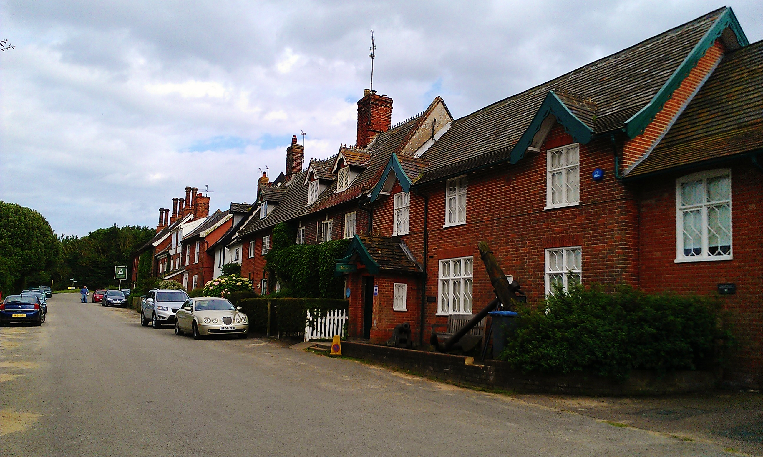 The village of Dunwich in Suffolk; the closest building is the local museum. Summer 2012.